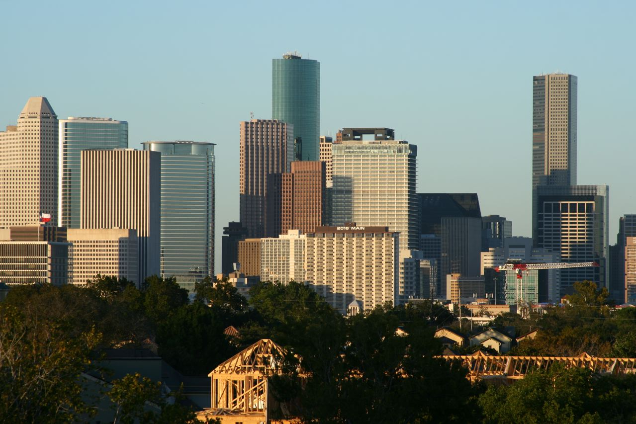 Photo taken by Jackson Myers at Flickr. He has given me permission to use this photo. Photo taken by Jackson Myers at Flickr (who has given me permission to use this photo). I have the emails to prove it!! I am the photographer and although I don't recall giving permission for this one to be used, I don't mind if it is used on Wikipedia. --J-a-x (talk) 03:15, 18 March 2010 (UTC)